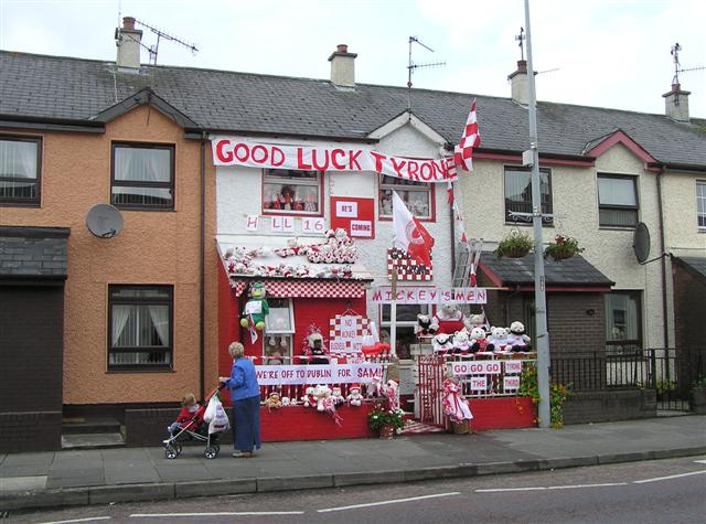 Tyrone football supporter, Strabane. This lady in this house recently appeared on TV; she is an avid fan of the Tyrone GAA team which will be meeting Kerry in the final at Croke Park in Dublin on Sunday, 21st September, 2008. The house is along Bridge Street 969122. They will be competing for the Sam Maguire Cup - more at